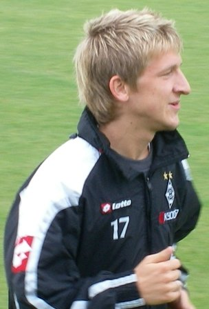 German football player Marko Marin